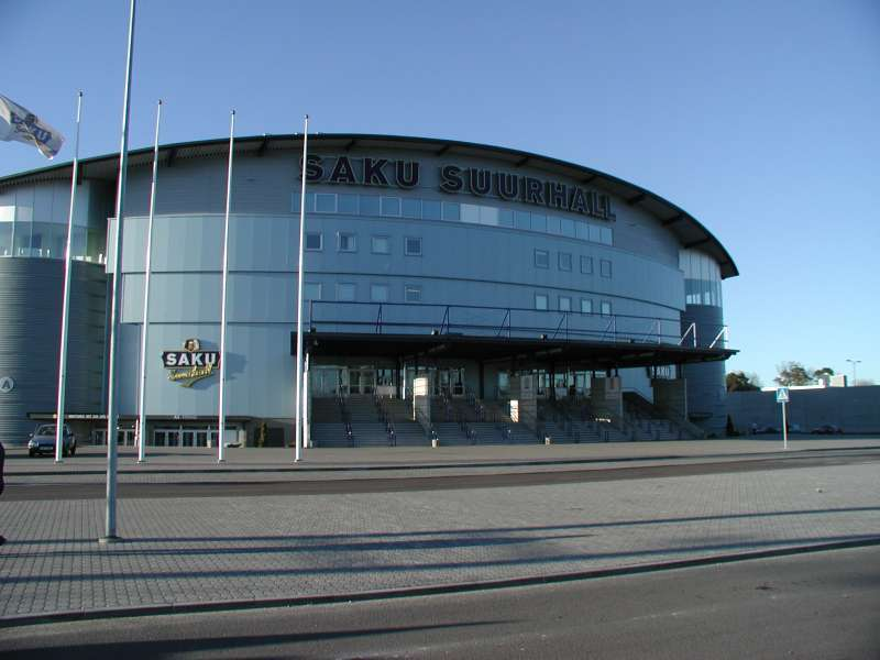 Saku Suurhall Arena.